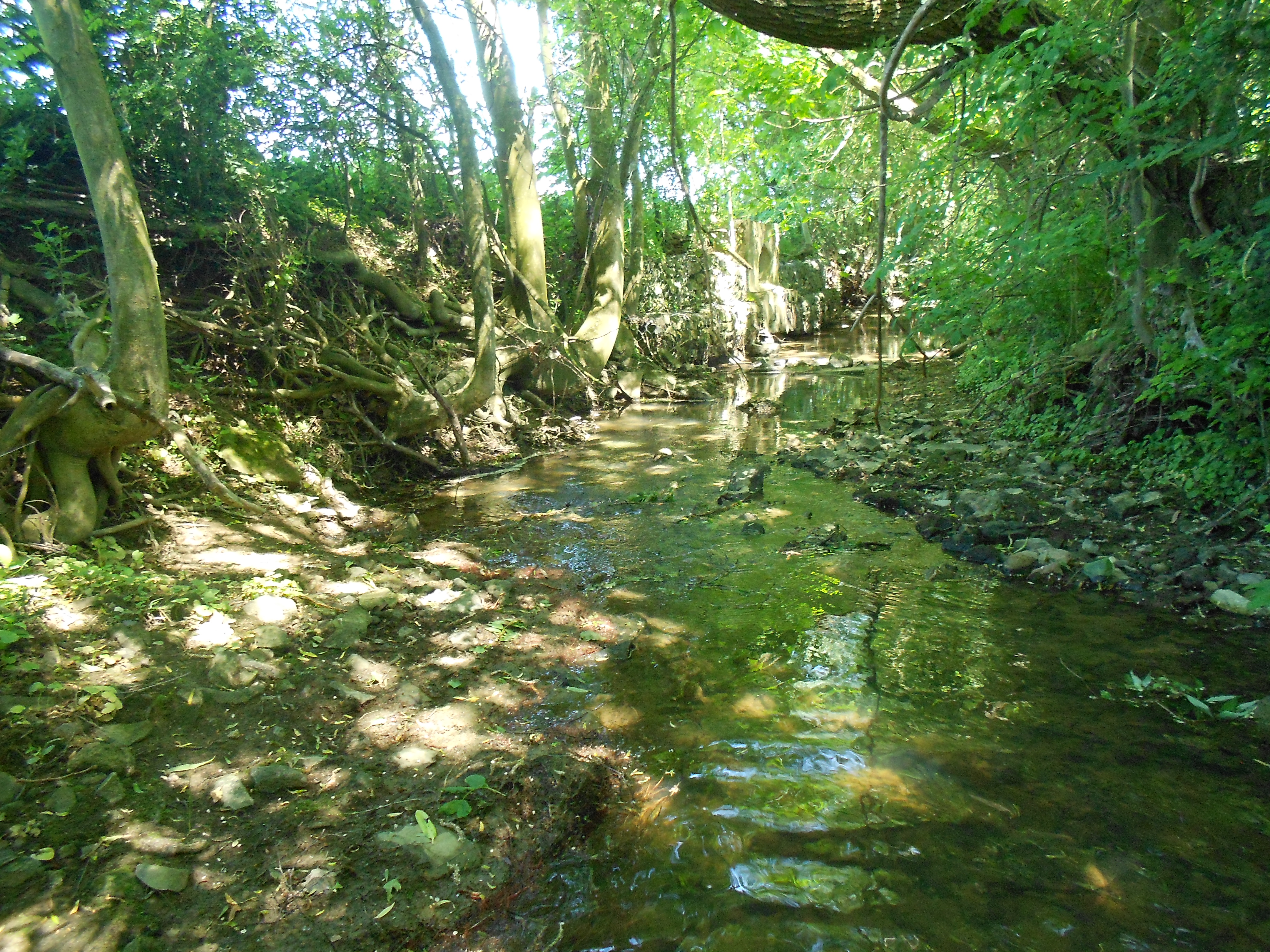 Brook in Cessange, in the city of Luxembourg, in May 2012.